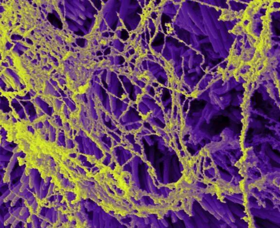 Scanning electron micrograph of cumulus matrix adhering to cilia on the outer surface of an infundibulum. The matrix was left behind by an oocyte cumulus complex that was picked-up by the infundibulum